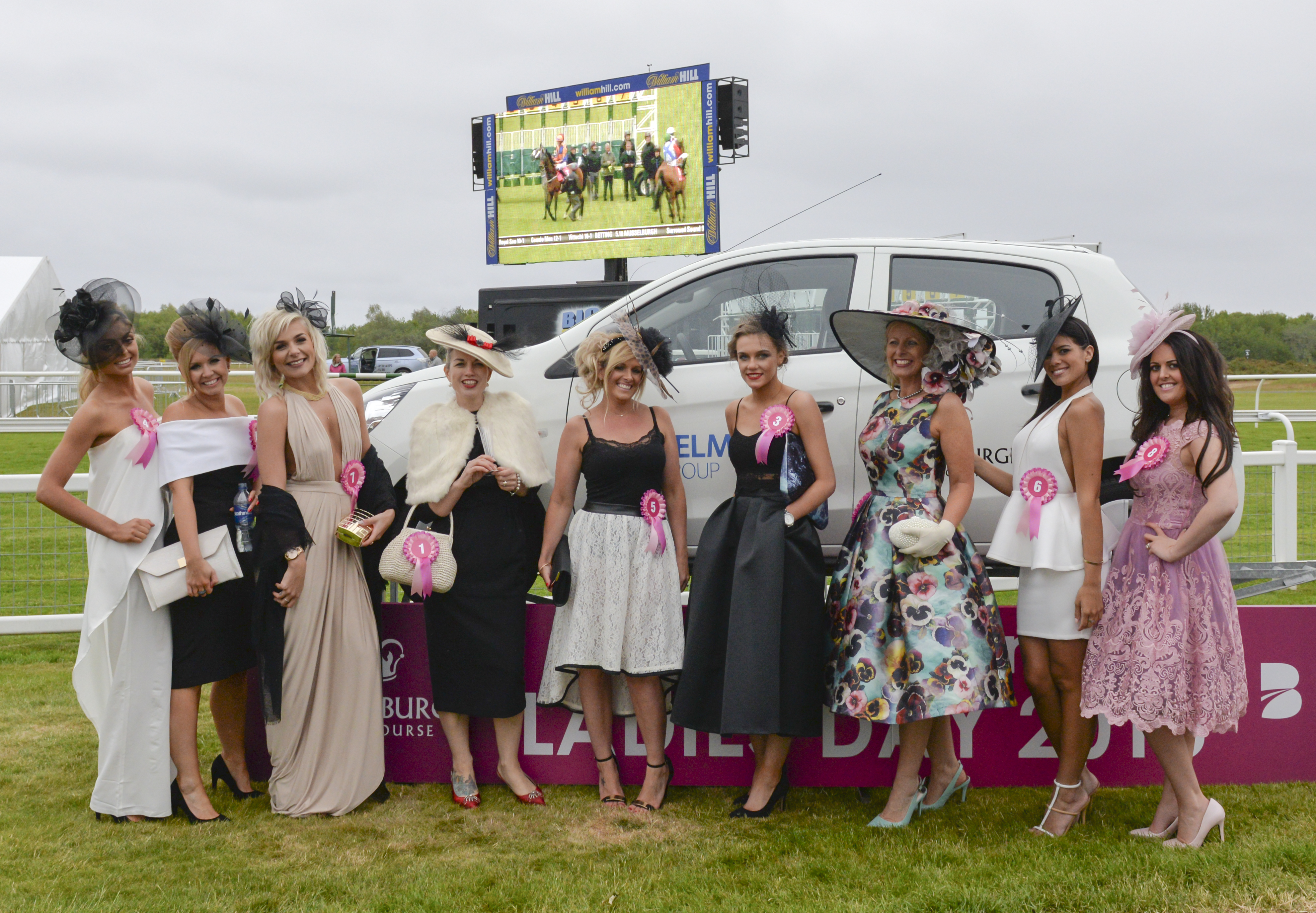 Queen of Style competitors